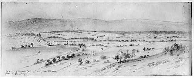 A drawing of the escape of Stonewall Jackson's Army down Valley Pike near Strasburg, Virginia.